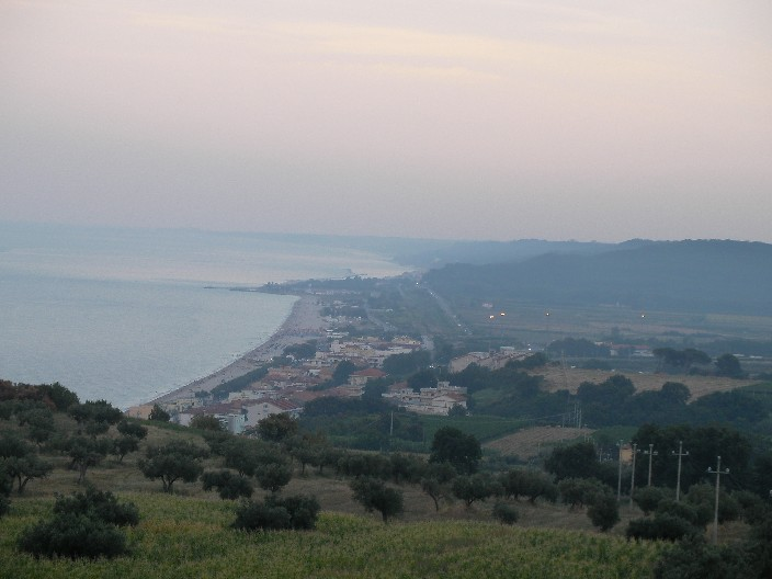 Vista di Fossacesia Marina